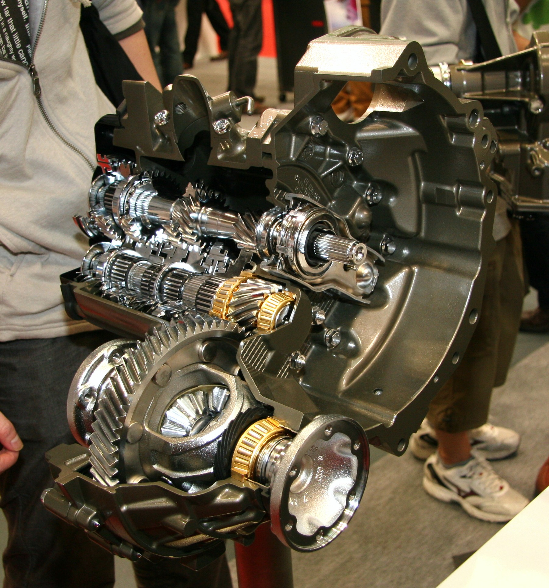 MT for VW Golf